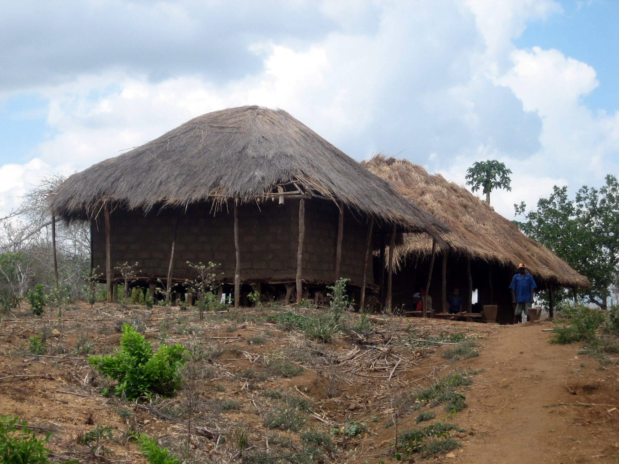 a typical farm in the community of Nhucure